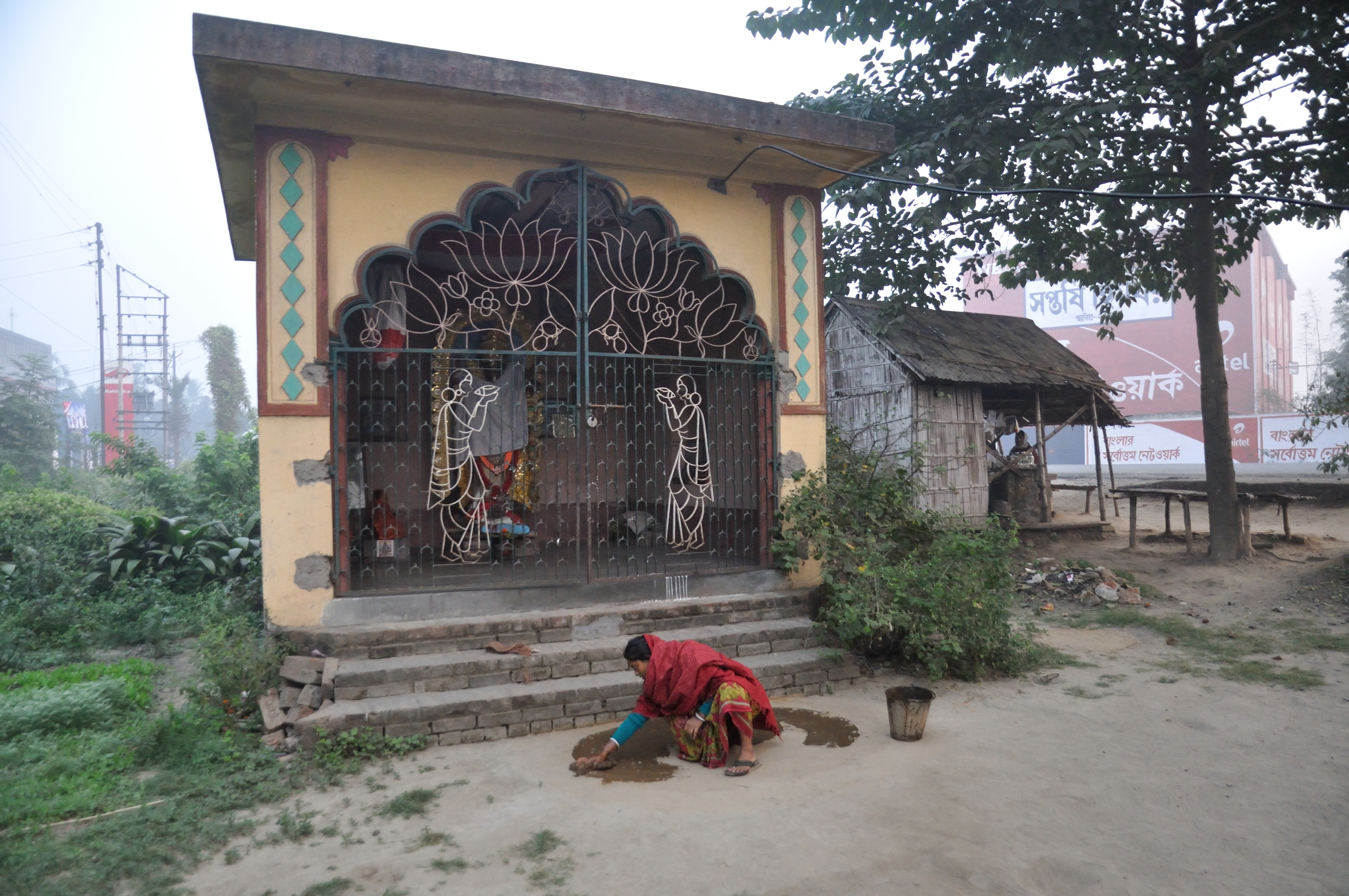 Photographed at Sargachi, Murshidabad.